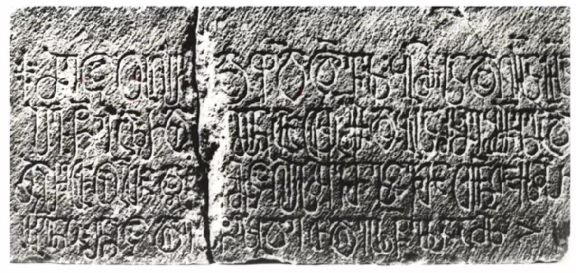 Georgian inscription (Akhtala), now situated in Louvre - Read by Zaza Aleqsidze